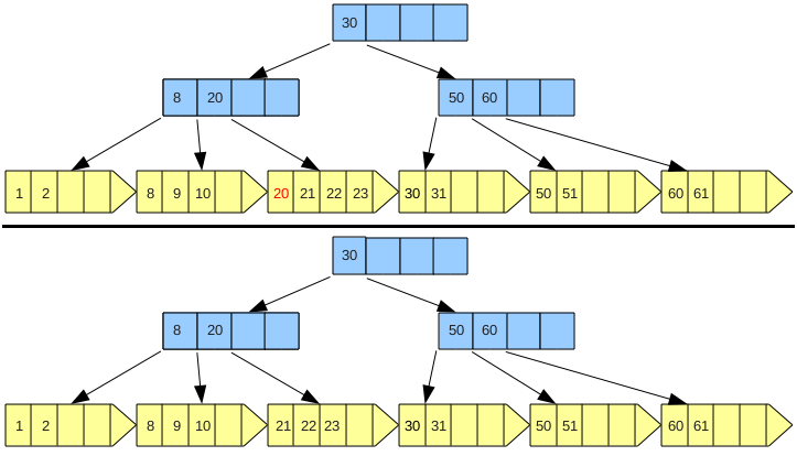 Remotion from B+ tree